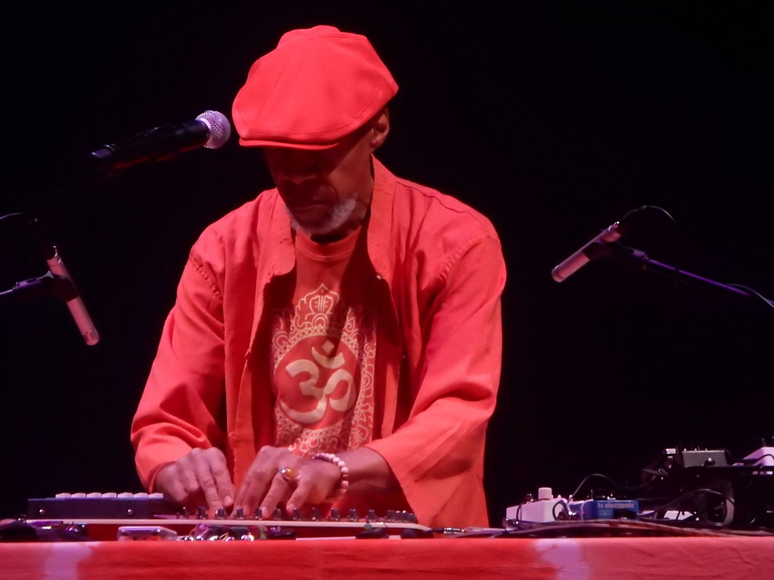 Musician Laraaji playing a show in 2019